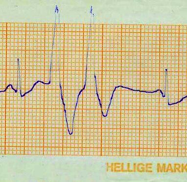 A ventricular couplet on an ECG strip.